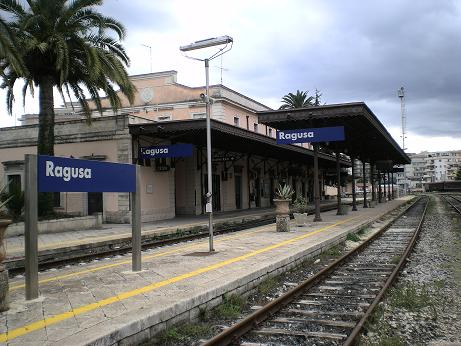 Train station of Ragusa